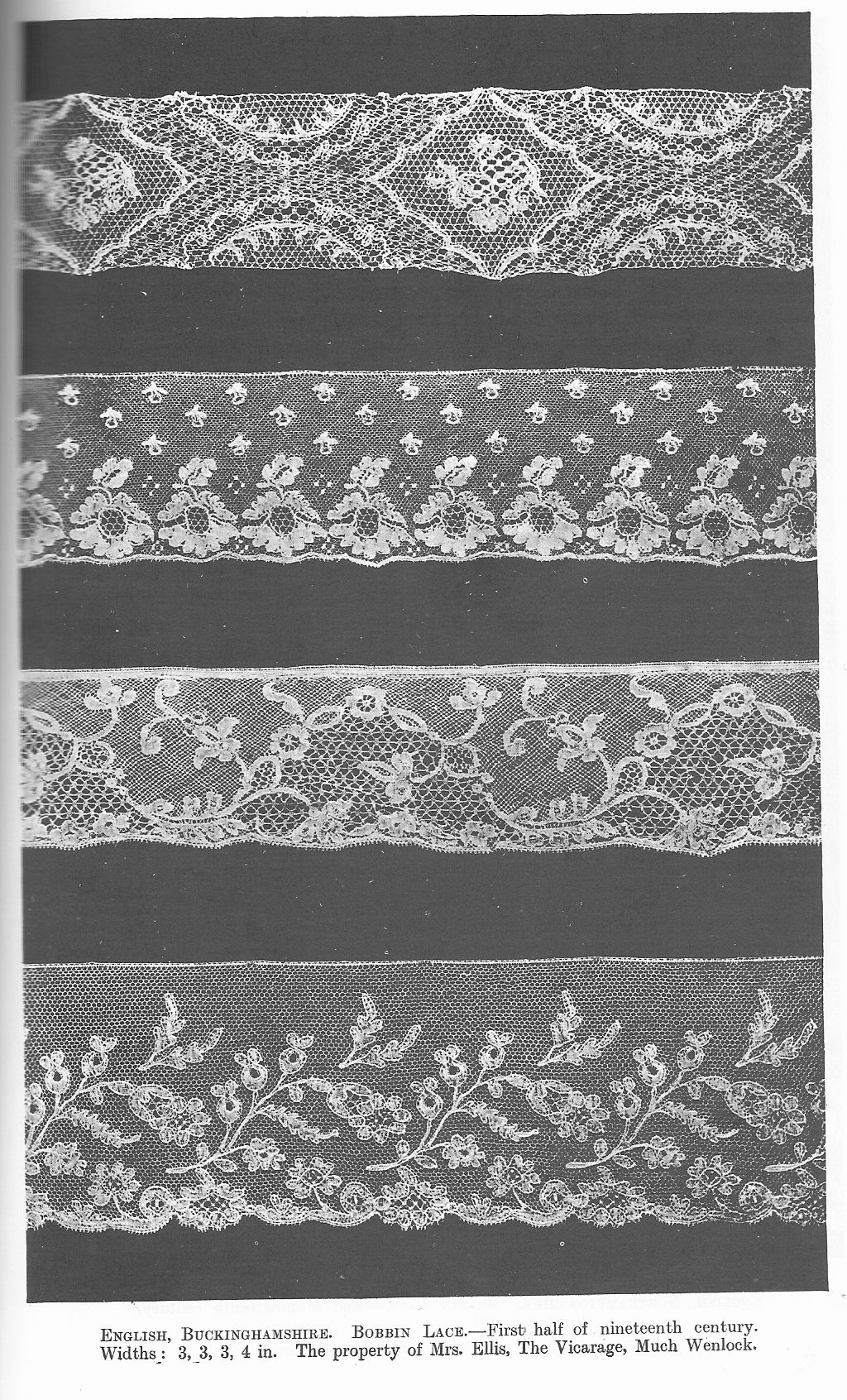 Examples of Bucks Point lace